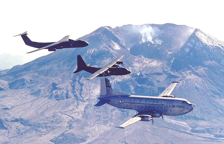 62d Logistics Readiness Squadron.